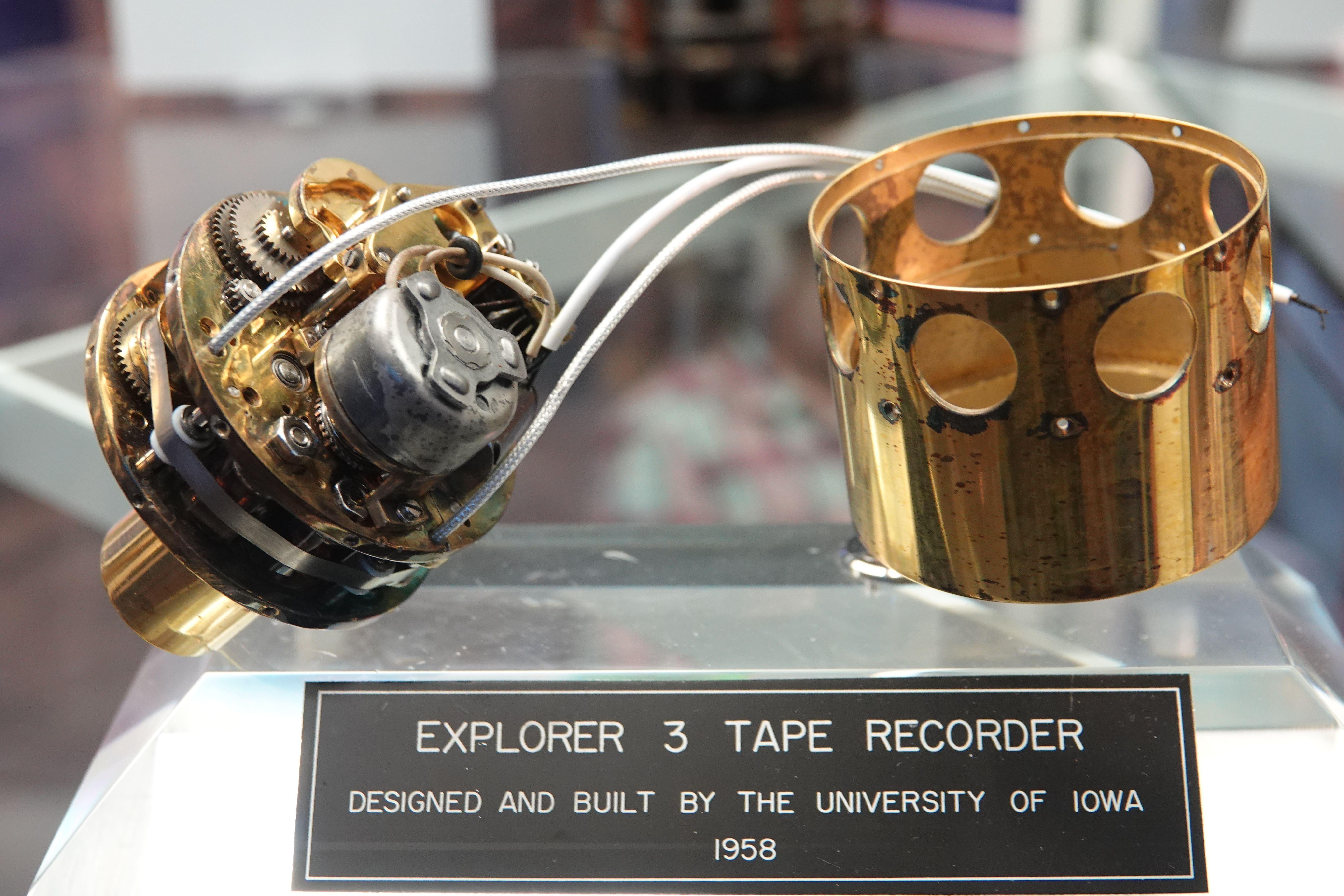 This miniaturized tape recorder is a backup for one that ﬂew on Explorer 3 , launched in 1958 to measure cosmic ray flux, mlcrometeorite Impacts, and temperature. Data from this flight confirmed the existence of the Van Allen radiation belts. The University of Iowa refurbished the device in 1981. Picture taken at the National Air and Space Museum's Steven F. Udvar-Hazy Center in Chantilly, Virginia, USA. -- Gift of James A. Van Allen